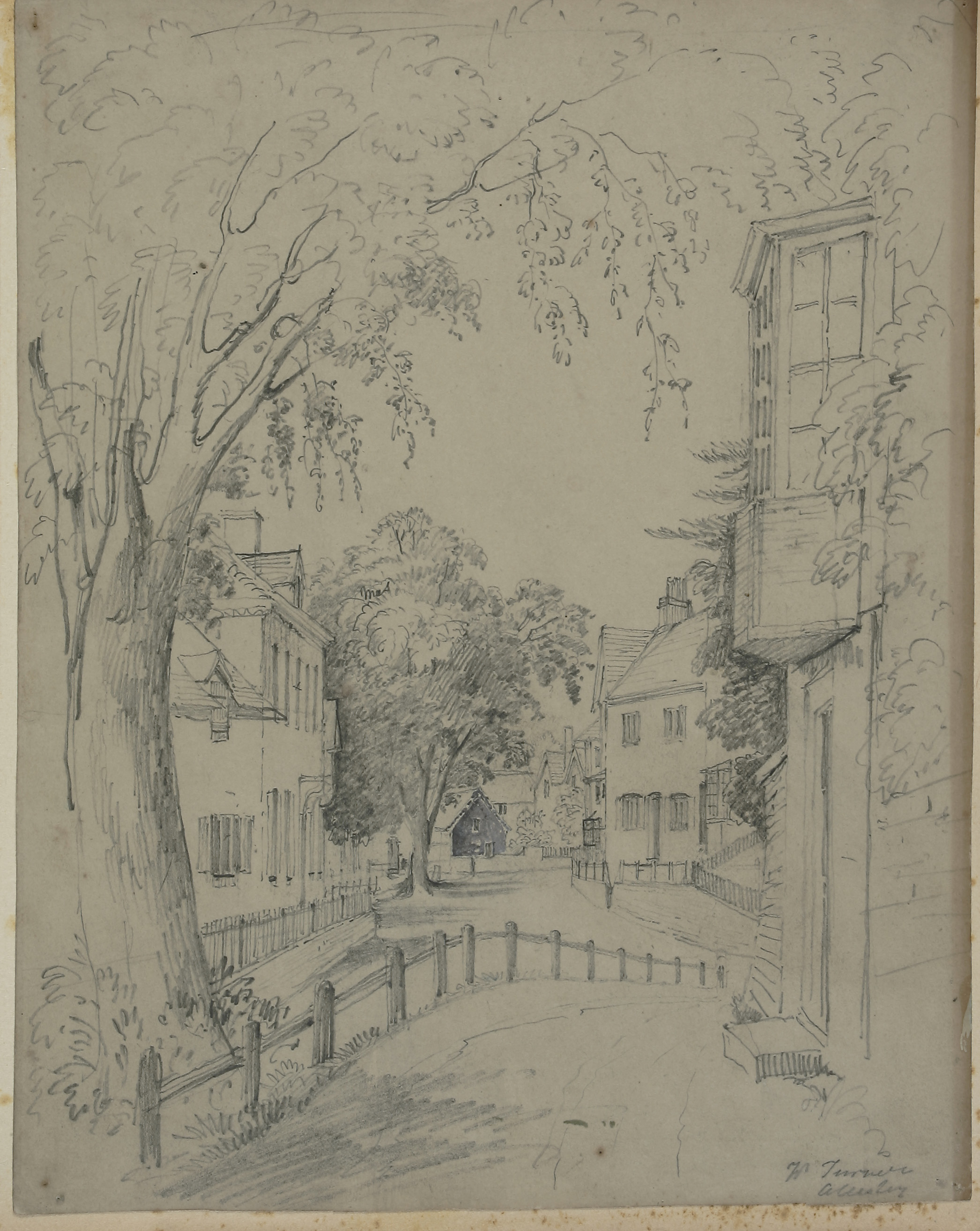 Allesley, now in Coventry, England. Pencil on paper with white gouache; 200 x 258mm Inscr. br.: W Turner/ allesley Accession: BIRSA:2007X.497 From the Lines family sketchbook, in the collection of the Royal Birmingham Society of Artists, Birmingham, England. See Rediscovering the Lines Family - Exhibition catalogue - 2009.